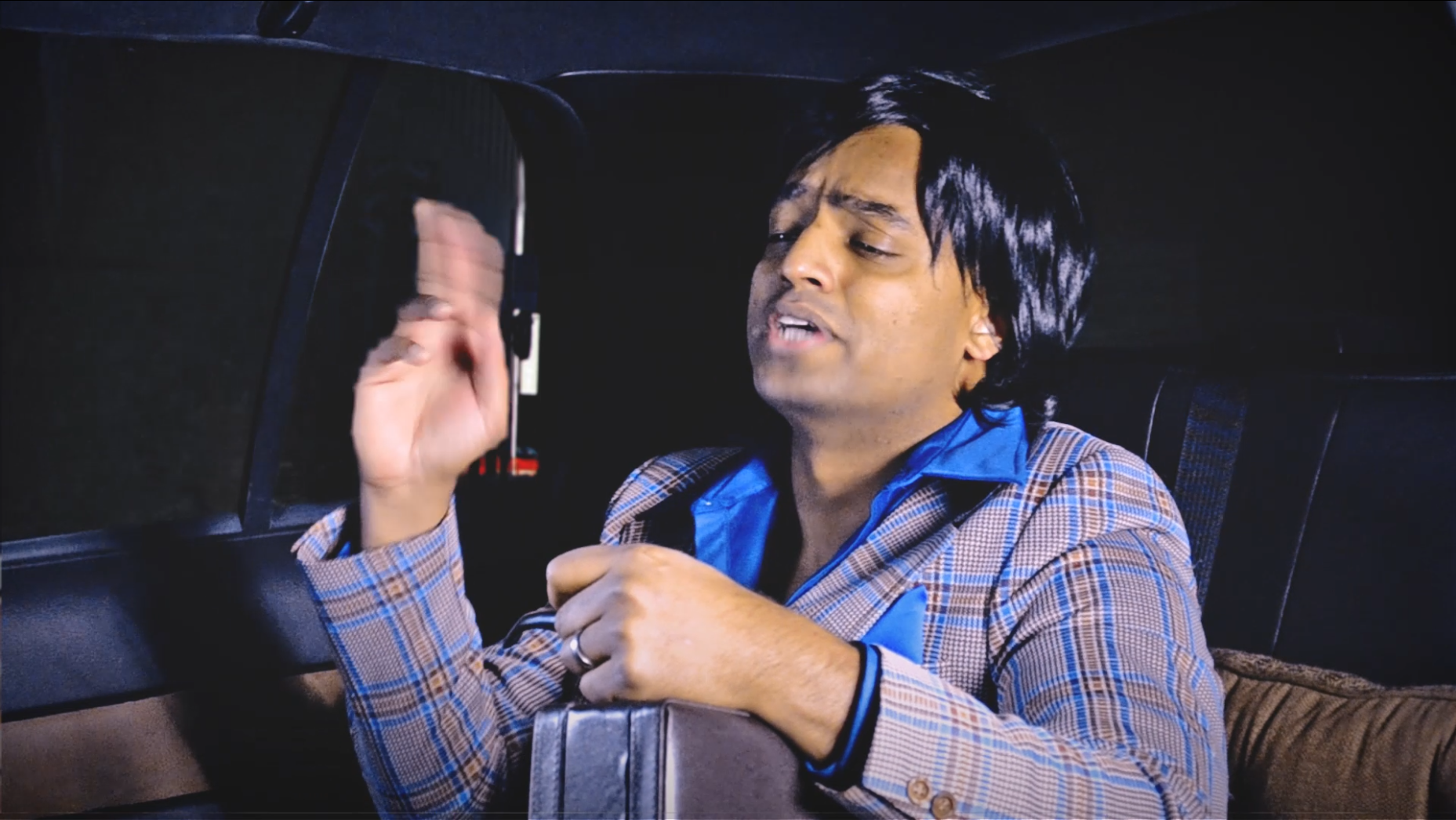 Roundabout - screenshot of an FMV cutscene, a non-player character, Charles Maximilian (portrayed by Chandana Ekanayake) is pictured. Released in 2014, the game was developed by No Goblin and is powered by Unity.